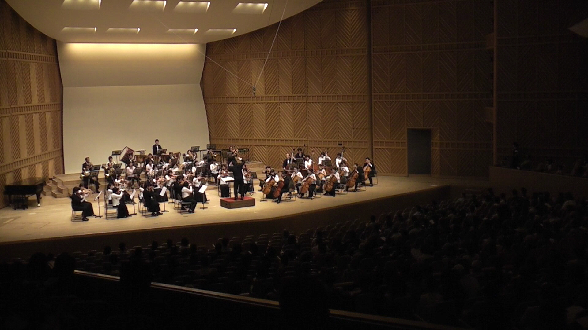 fuchu-city-orchestra, (Hiroshima-pref,fuchu-city JAPAN